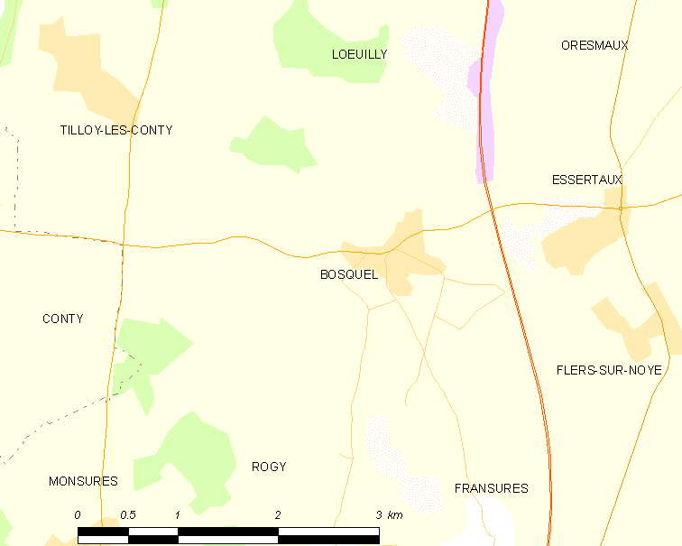 Map of French municipality Bosquel